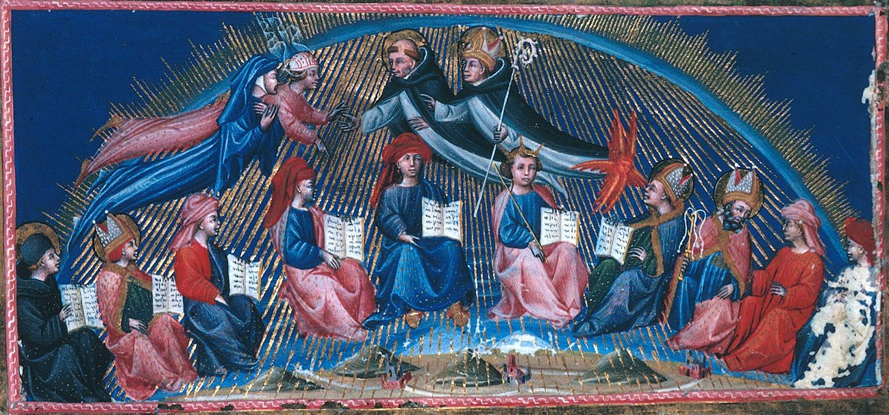 Illustration of Dante's Paradiso, canto X, first circle of the 12 teachers of wisdom led by Thomas Aquinas Manuscript